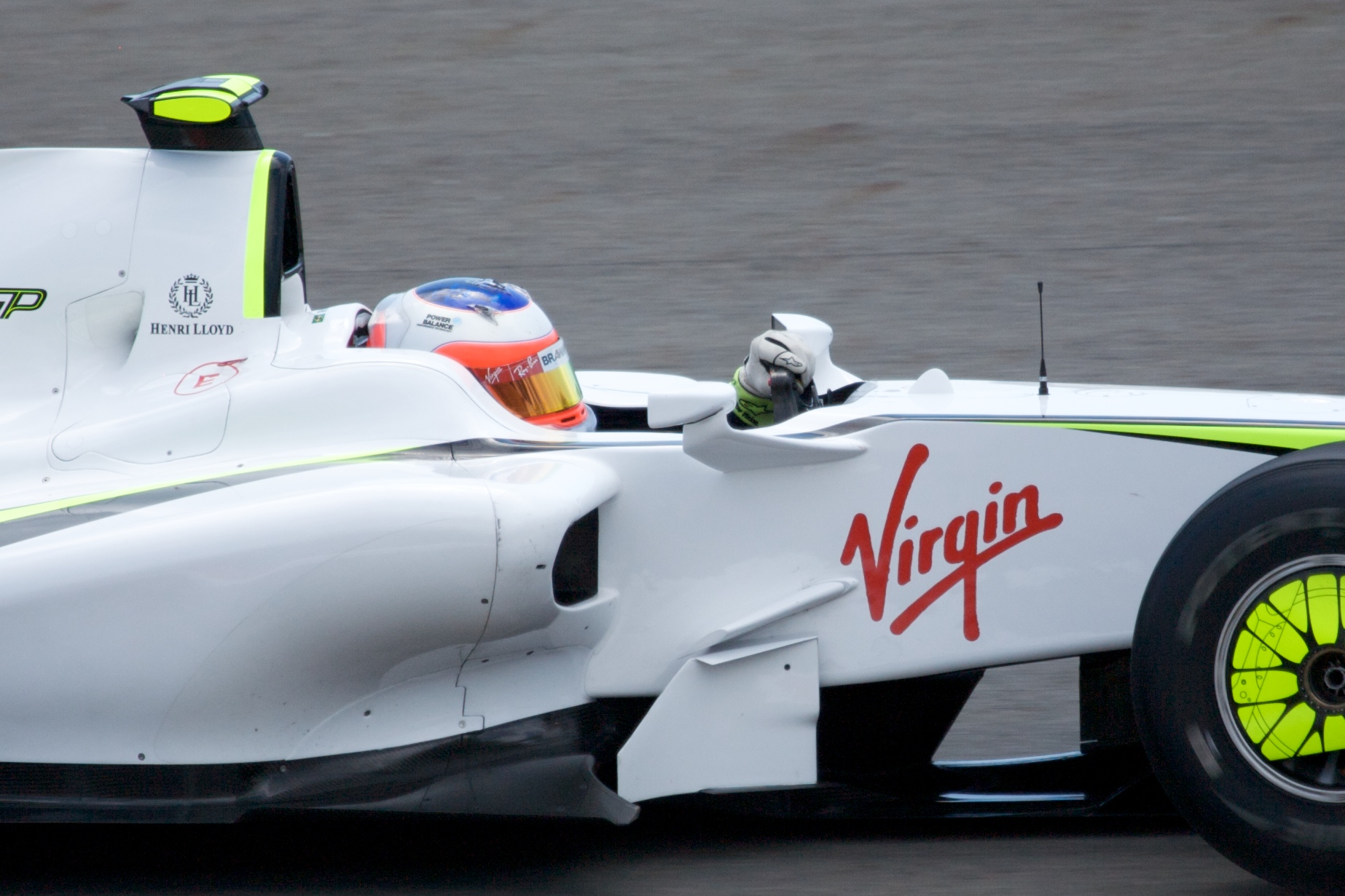 Rubens Barrichello driving for Brawn GP at the 2009 Turkish Grand Prix.